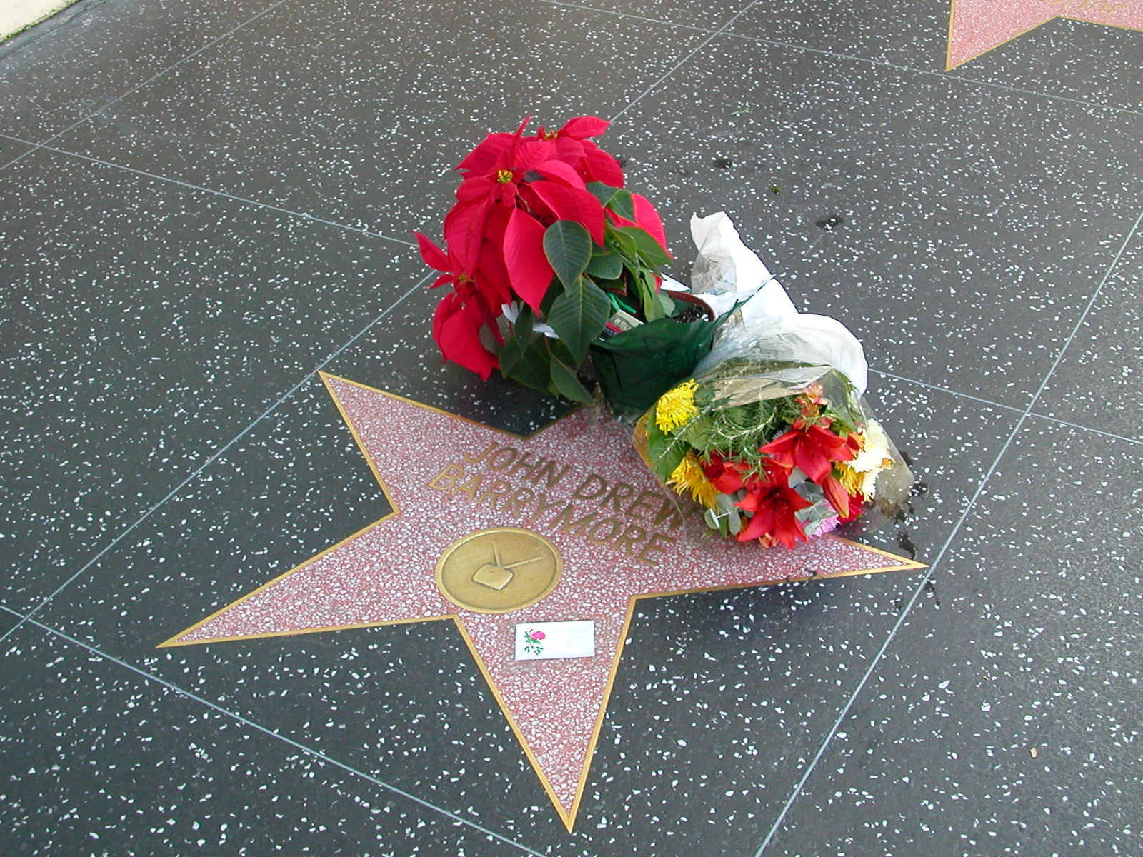 John Drew Barrymore's star on the Hollywood Walk of Fame.